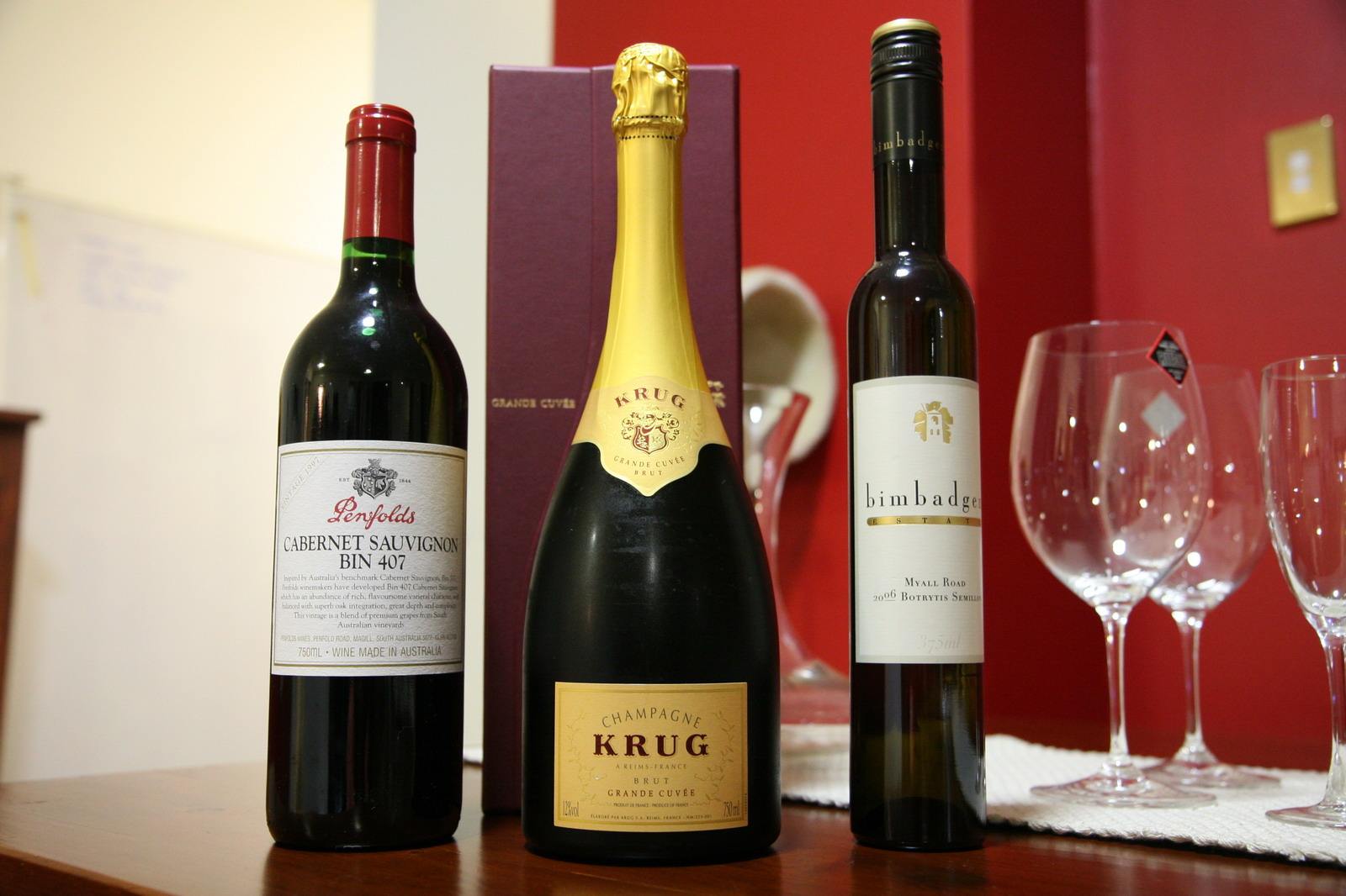 From author: "Penfolds Bin 407 - 1997 Cab Sav, Krug Grande Cuvee and Botrytis from Bimbadgen."